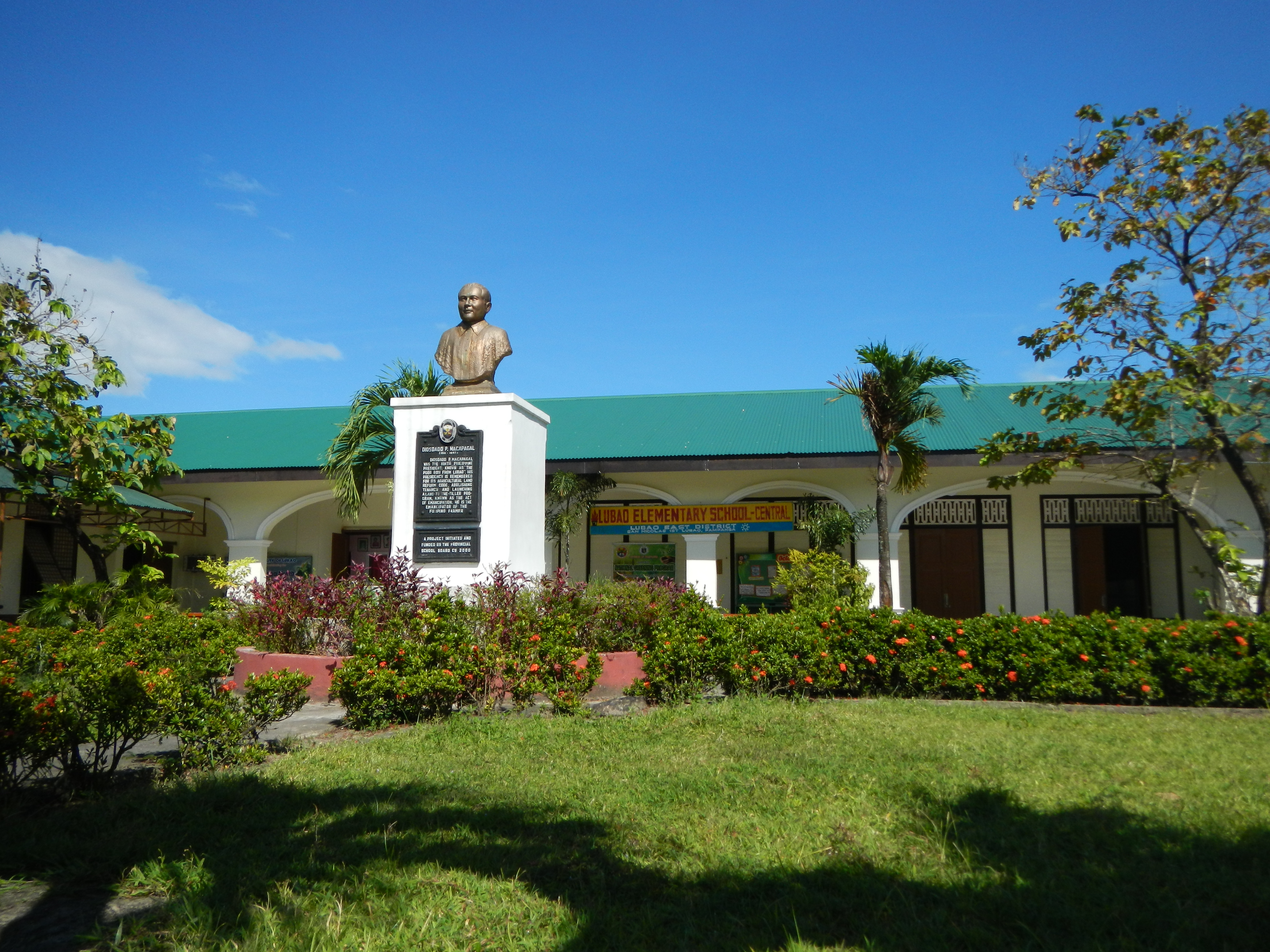 Lubao Elementary School-Central, East District Lubao, Pampanga[1]